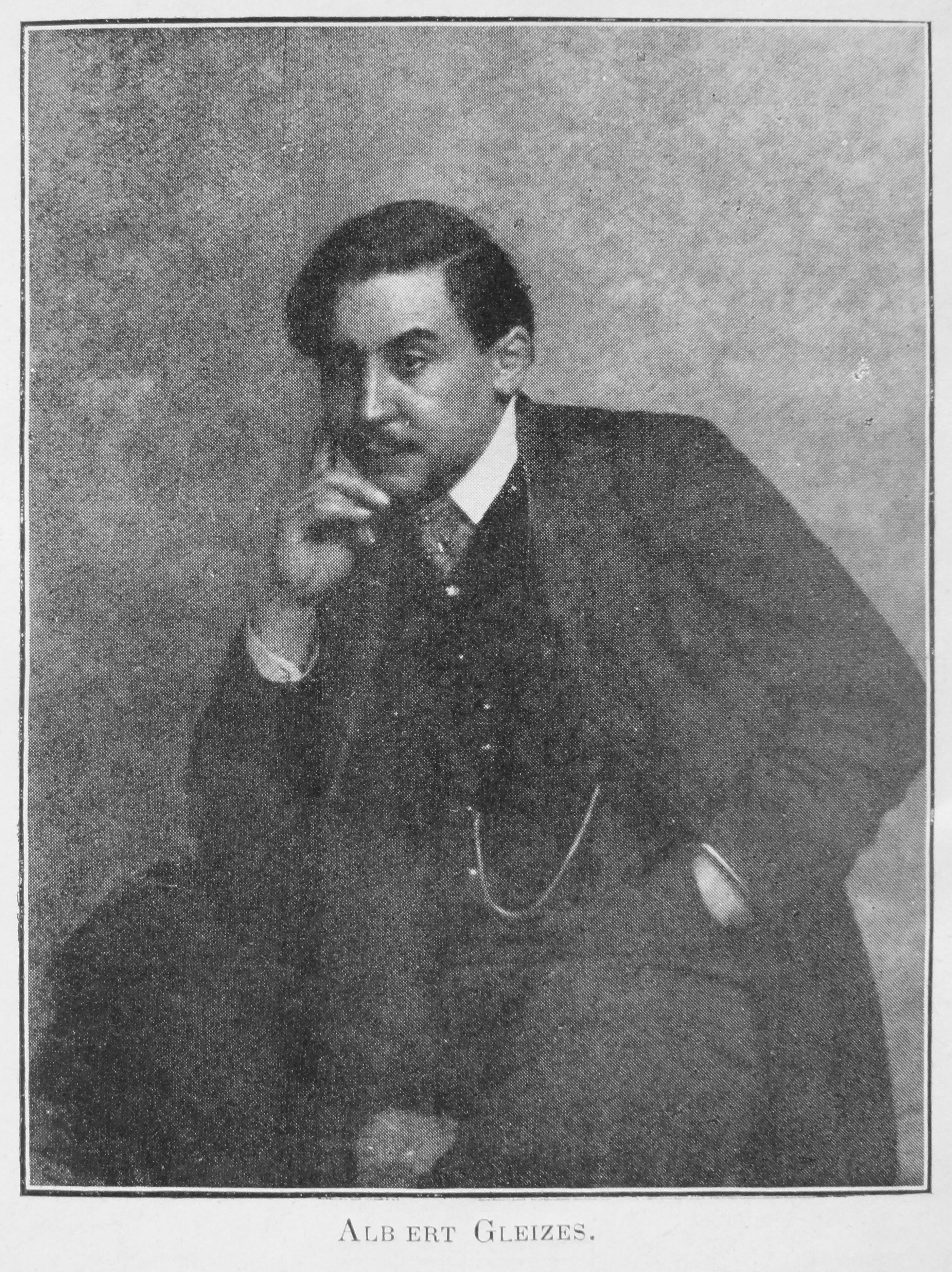 Albert Gleizes, portrait photograph, published in Les Peintres Cubistes, 1913